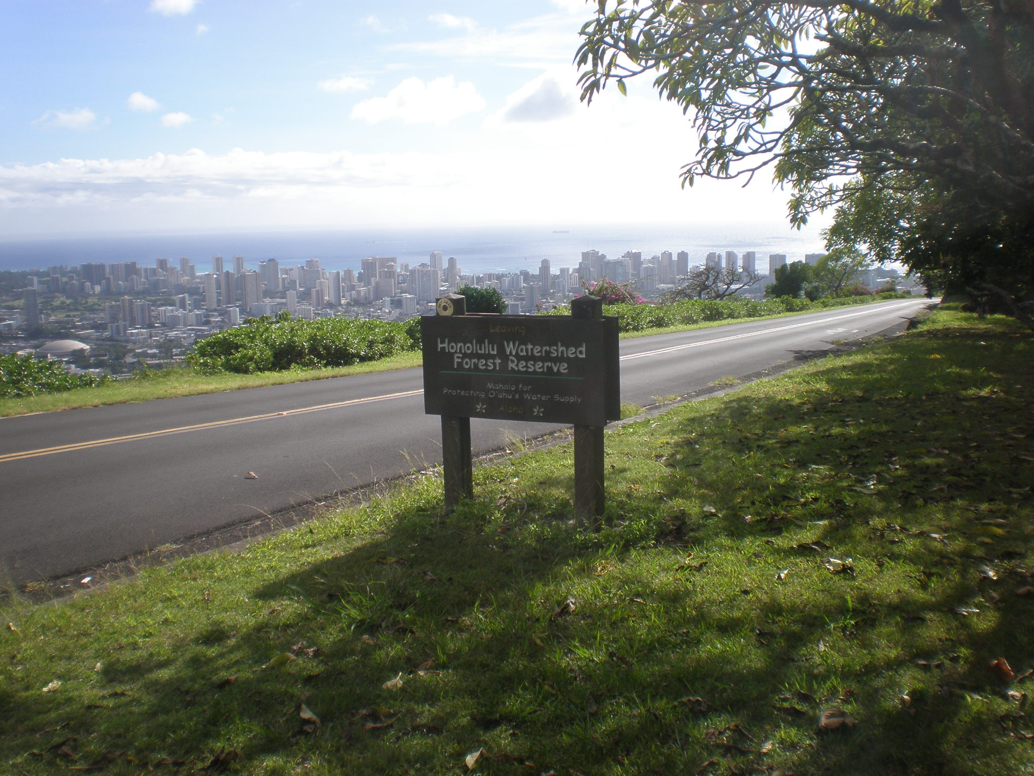 Round Top Drive view of Waikiki from Honolulu Watershed Forest Reserve signpost, Honolulu, Hawaii